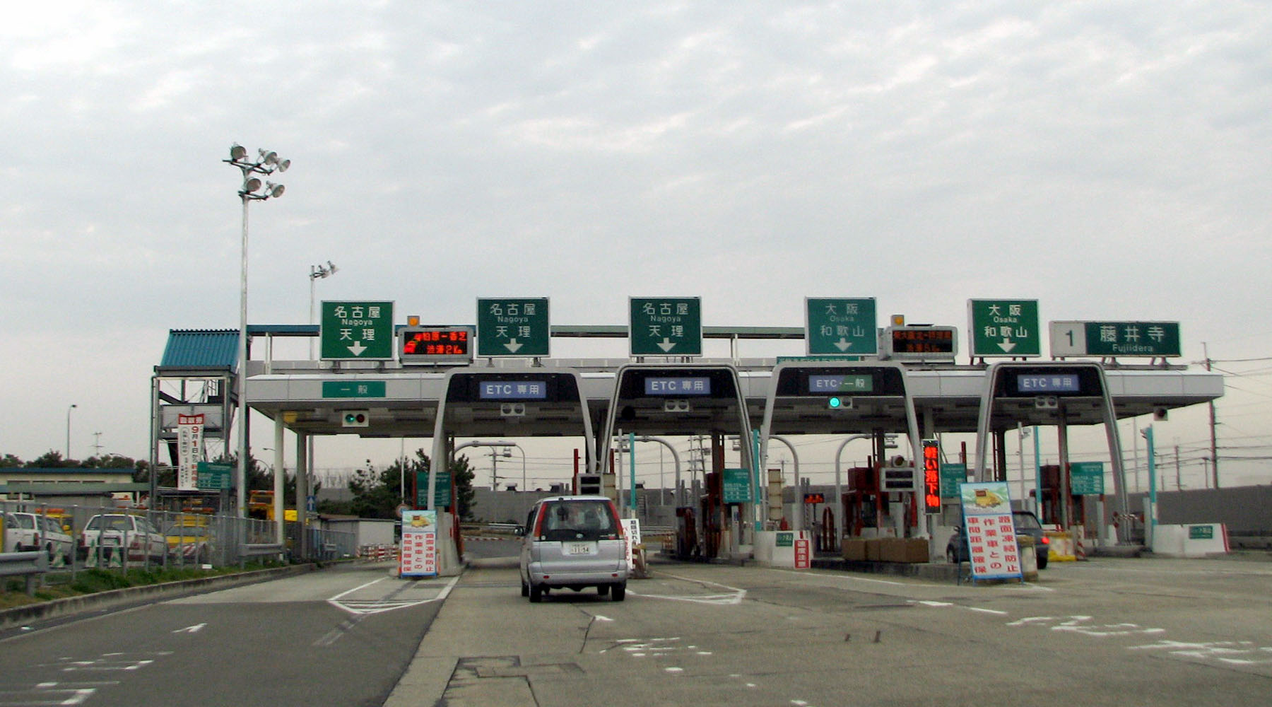 Fujiidera IC Tollgate